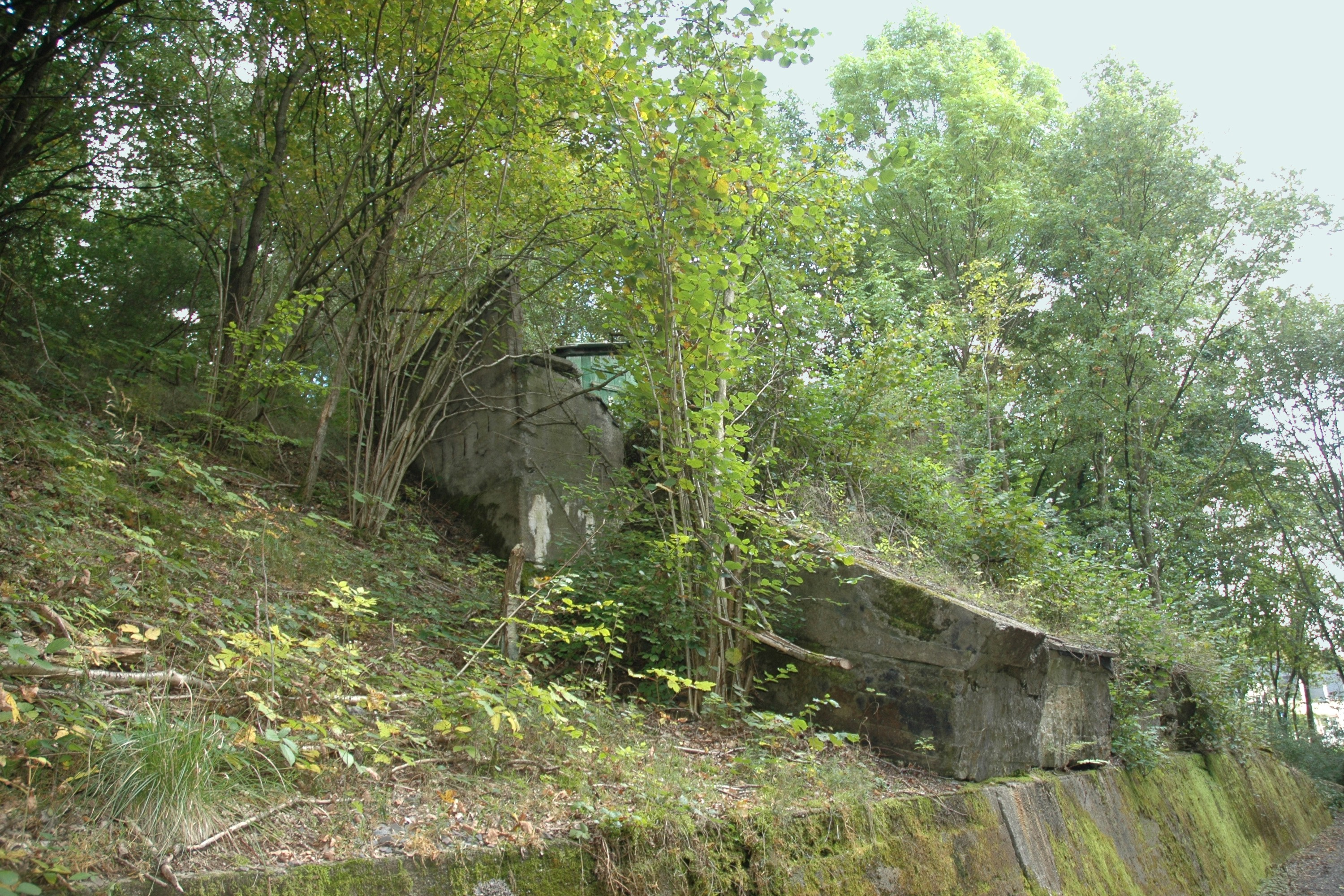 Street Bridge at Bleialfer Tunnel